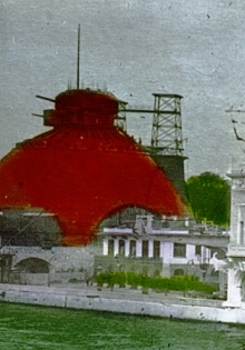 Schneider Creusot Pavilion at the 1900 Paris Exposition, cropped image from a postcard